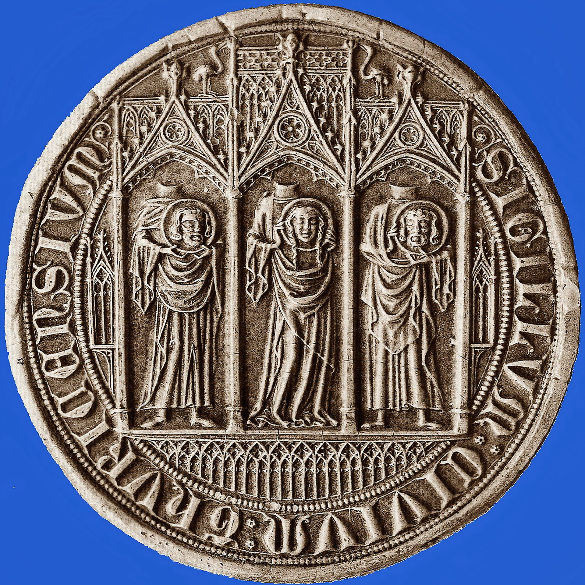 Zürich : Seal of City and Canton Zürich with San Felix & Regula and Exuperantius (as of 1347)Die heute übliche Siegelform geht zurück auf das seit 1347 verwendete sogenannte Sekretsiegel des Rates von Zürich, das folgende Umschrift aufwies: 'SECRETVM CIVIVM THVRICENSIVM' (Geheimsiegel der Bürger von Zürich). Weder die Reformation noch die Helvetik, weder die Regeneration noch die demokratische Bewegung der 1860er Jahre brachten eine wesentliche Änderung des Siegelbildes.Beschreibung gemäss Website des Staatsarchivs des Kantons Zürich.